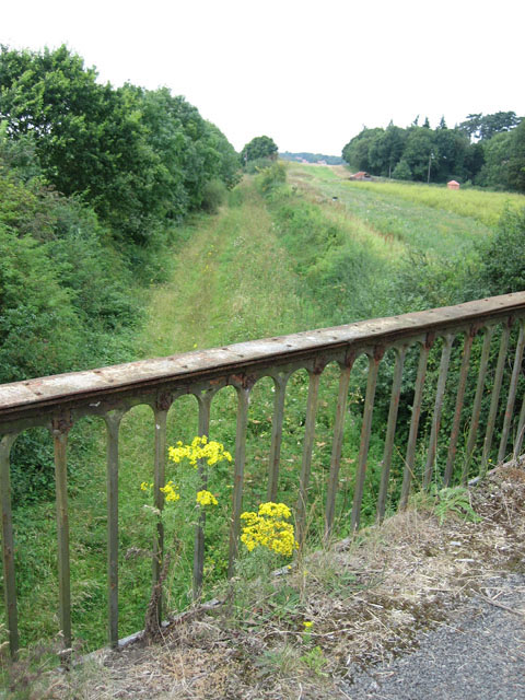 Looking up the line to Fakenham. The opposite direction to 523351